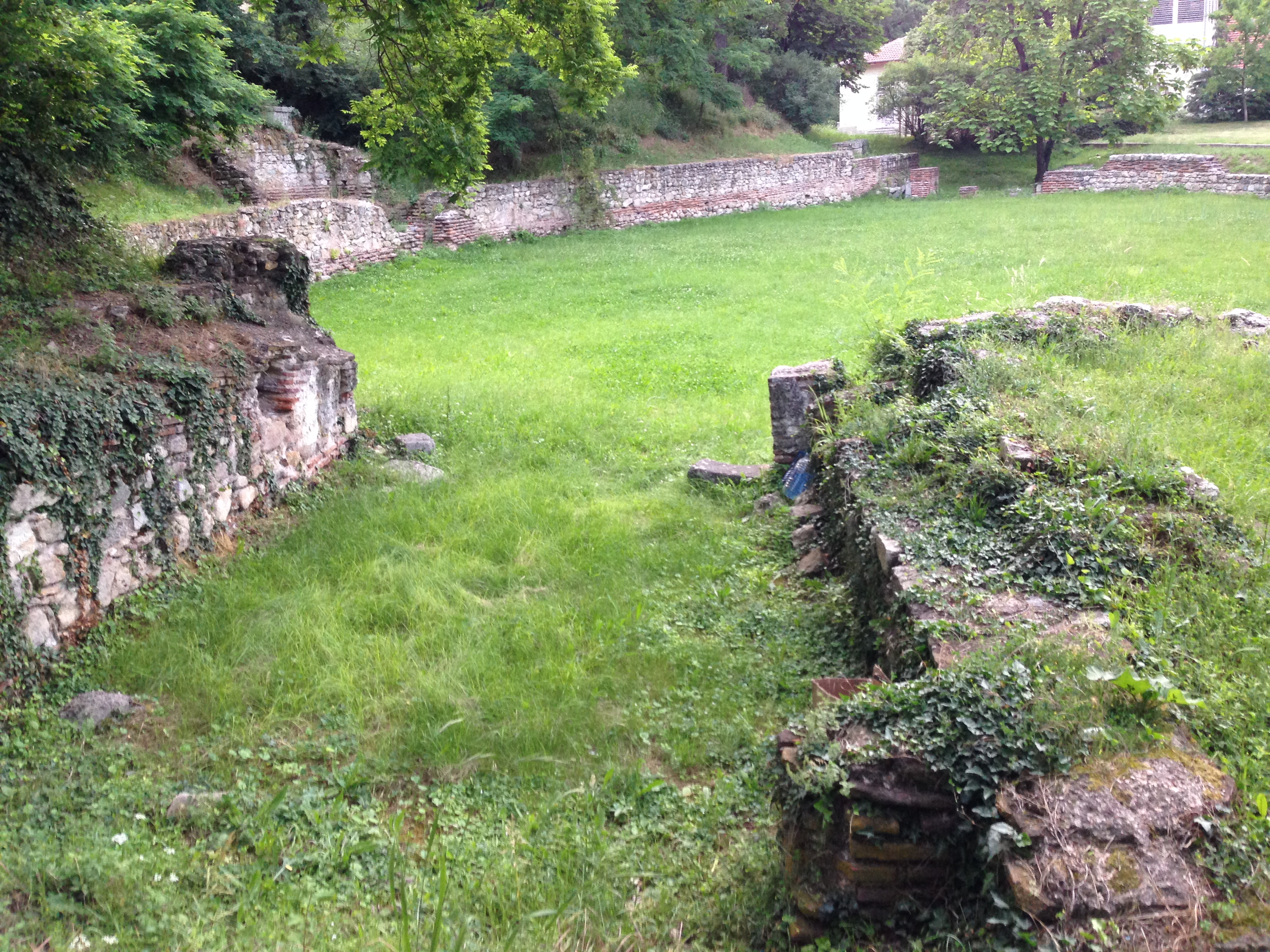 Amphitheatre Diocletianopolis